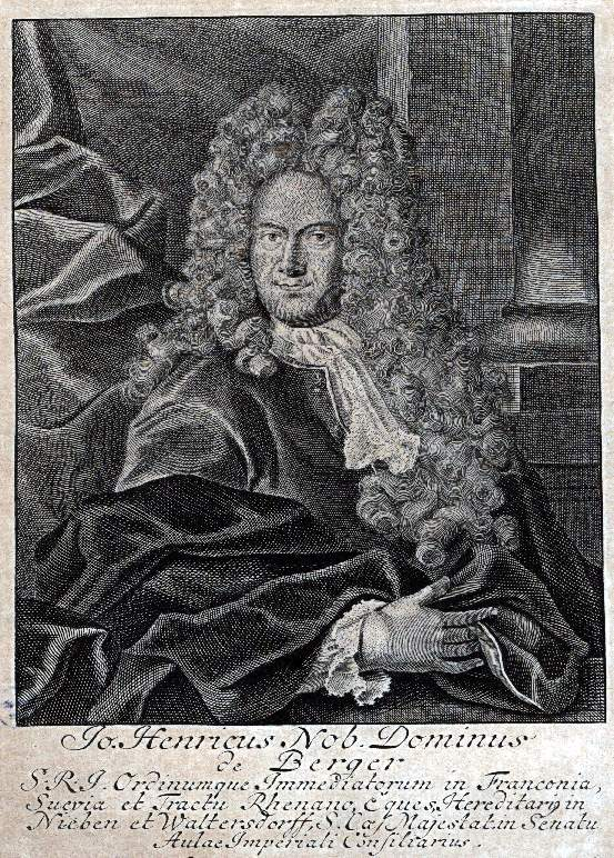 Portrait of Johann Heinrich Berger (1657-1732), Prof. Dr. jur. in Wittenberg (Sachsen-Anhalt, Germany)